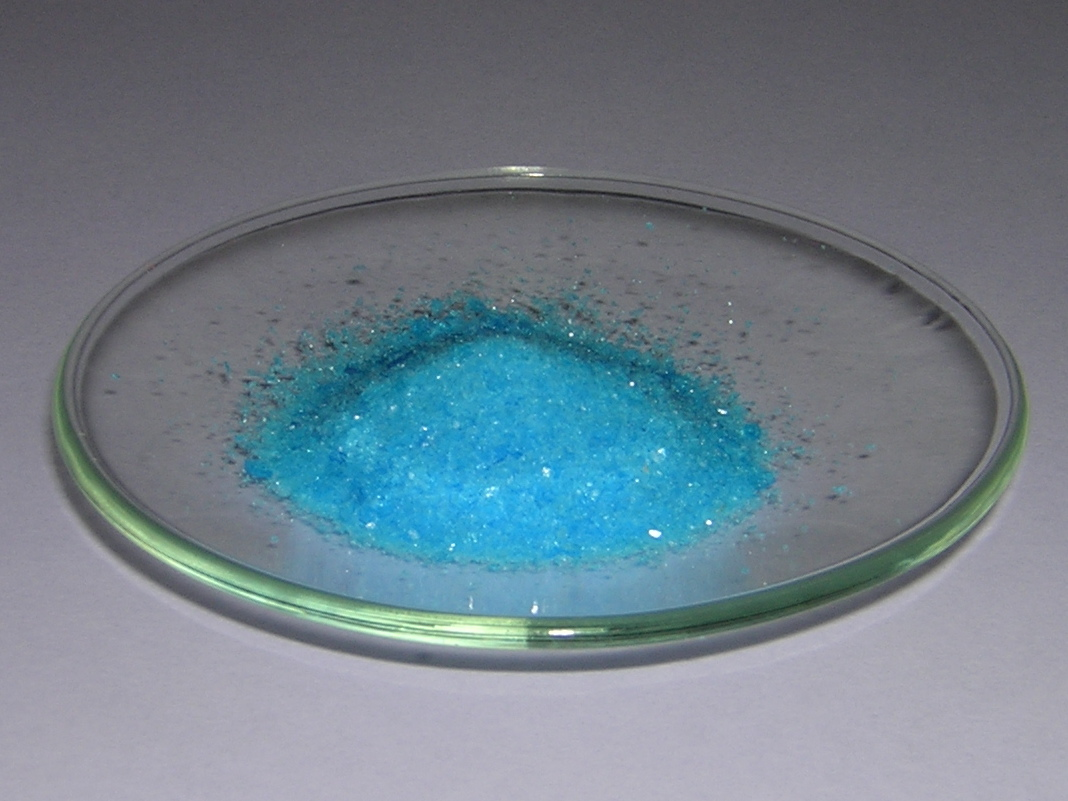 Copper(II) sulfate pentahydrate—blue vitriol, bluestone.